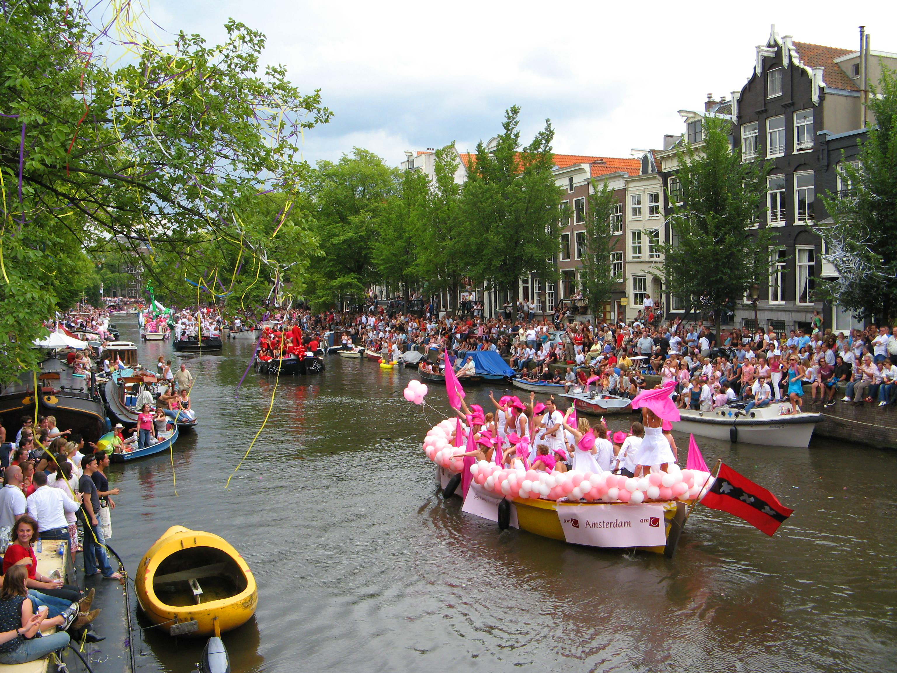 Amsterdam Gay Pride 2008 This photo has been taken in the country: Netherlands